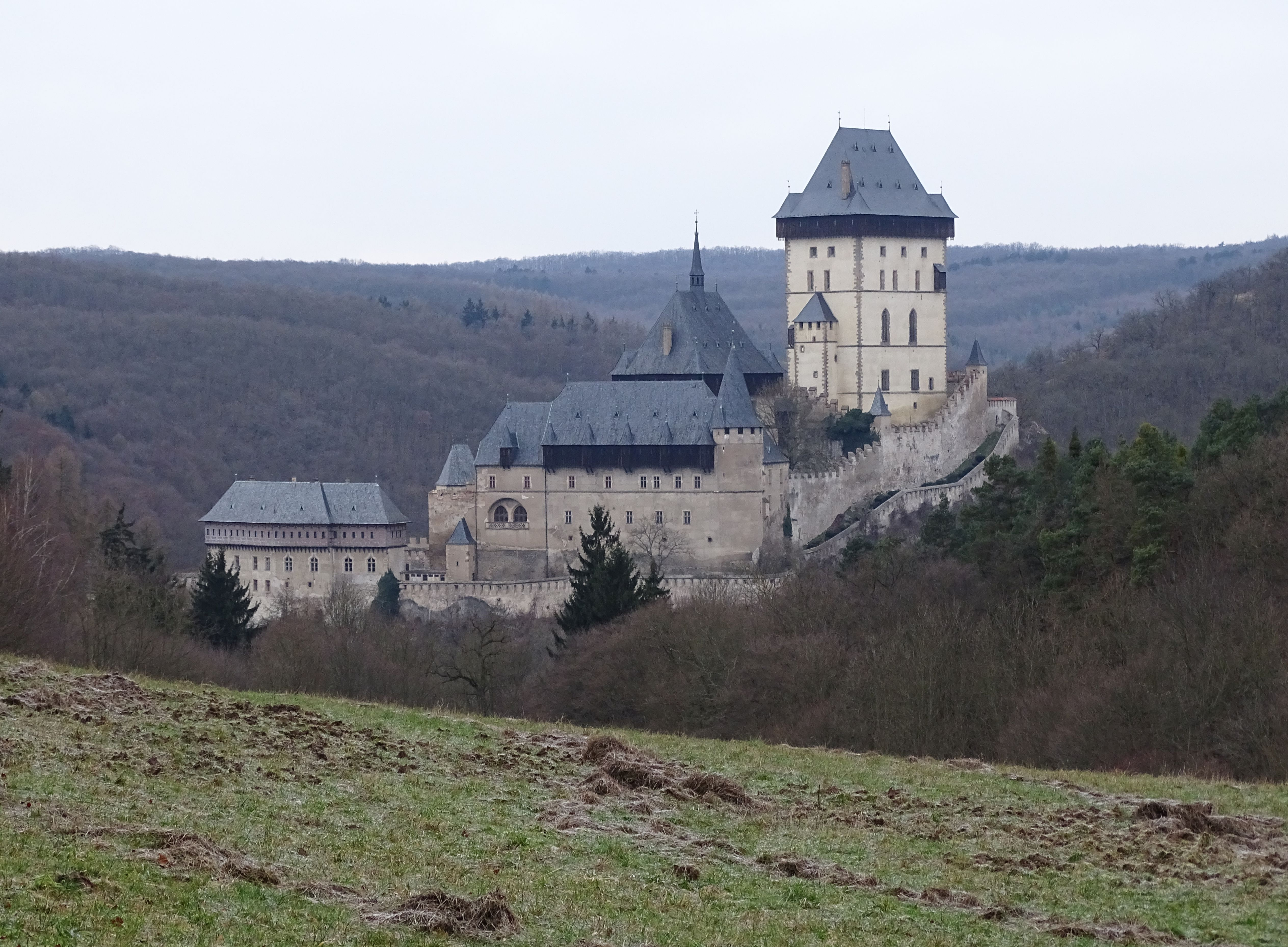 Karlštejn-Budňany, Beroun District, Central Bohemian Region, Czech Republic. A view of Karlštejn Castle from the saddle between Plešivec and Haknová hills.